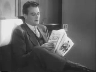 John Wayne in The Trail Beyond, a 1934 film by Robert N. Bradbury